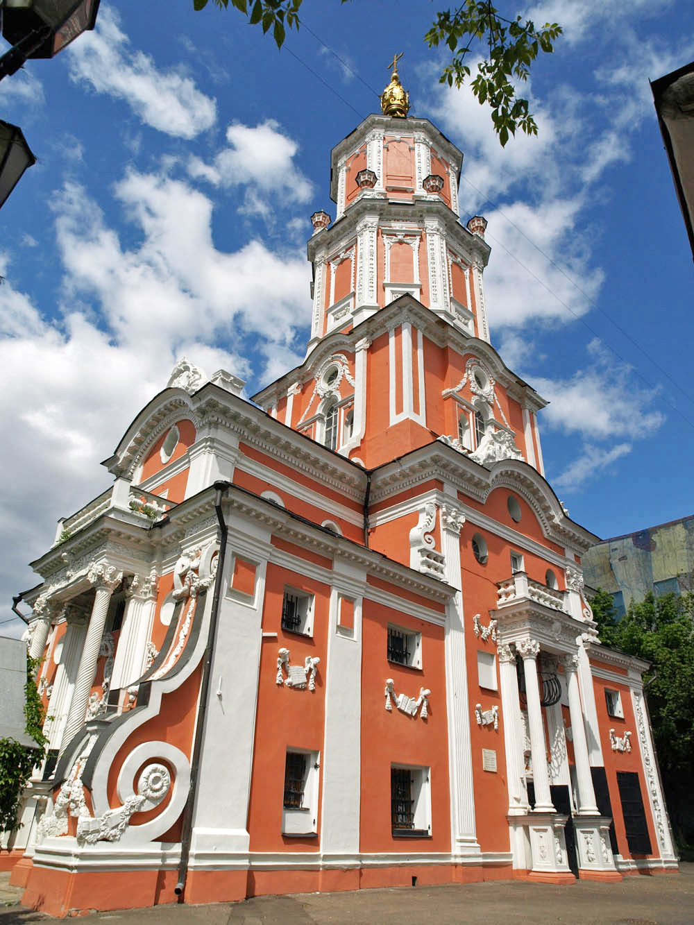 Сhurch of Archangel Gabriel in Moscow, aka Menshikov Tower